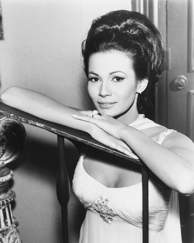 BarBara Luna in the TV-series Mission:Impossible, episode Elena - publicity still (cropped & without marks)